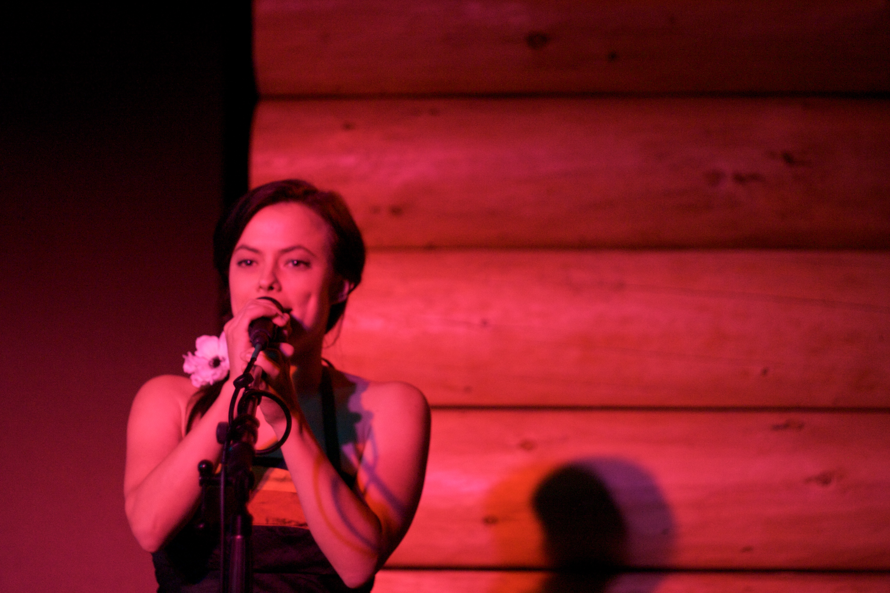 Lenka, australian singer. Hotel Cafe Tour at Doug Fir in Portland, Oregon